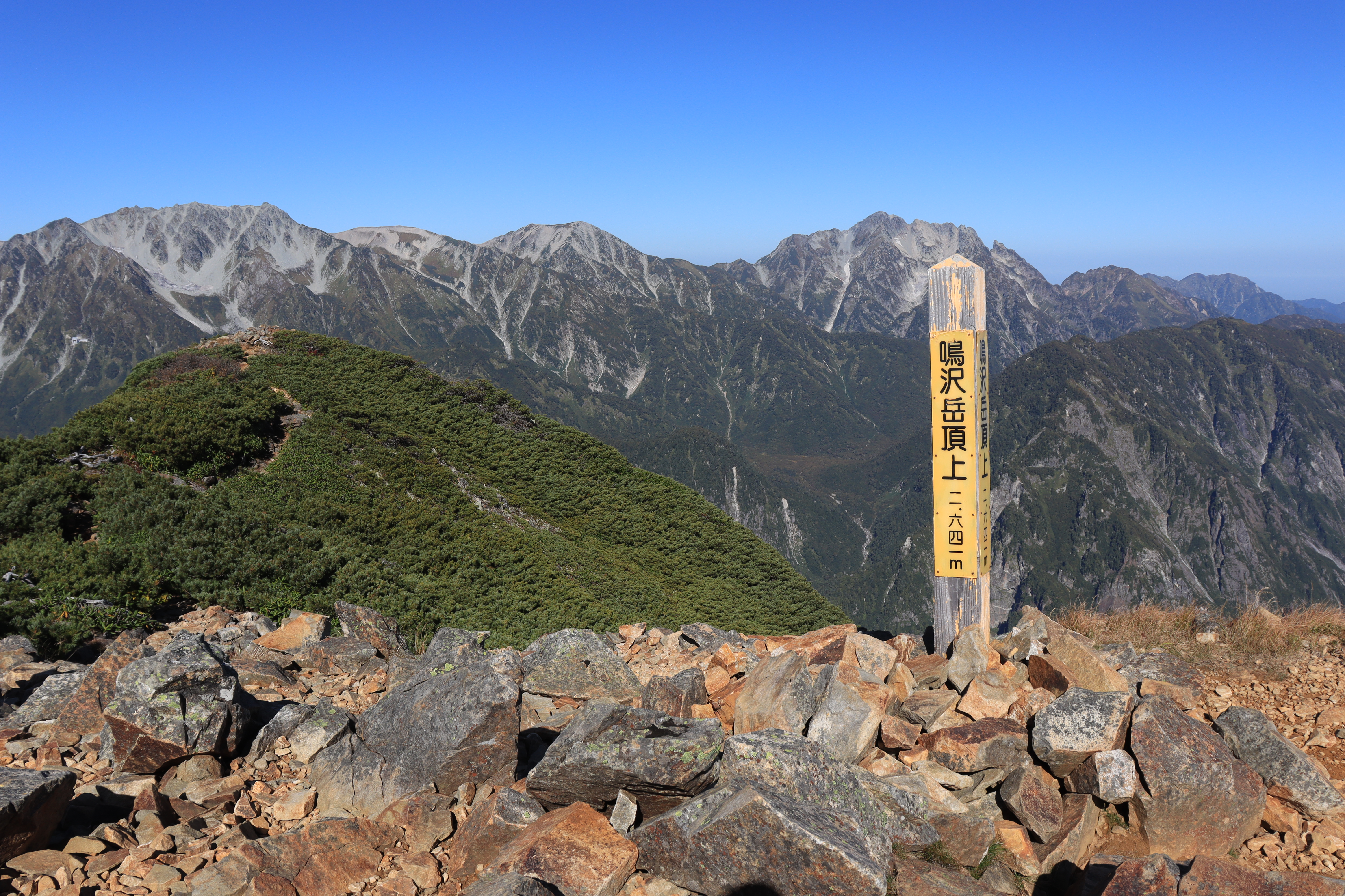 Mount Narusawa (peak) and Tateyama Mountains (Mount Tate, Mount Masago, Bessan, Mount Tsurugi, Kekachi Mountains and Kurobebessan) in Toyama Prefecture and Nagano Prefecture, Japan.